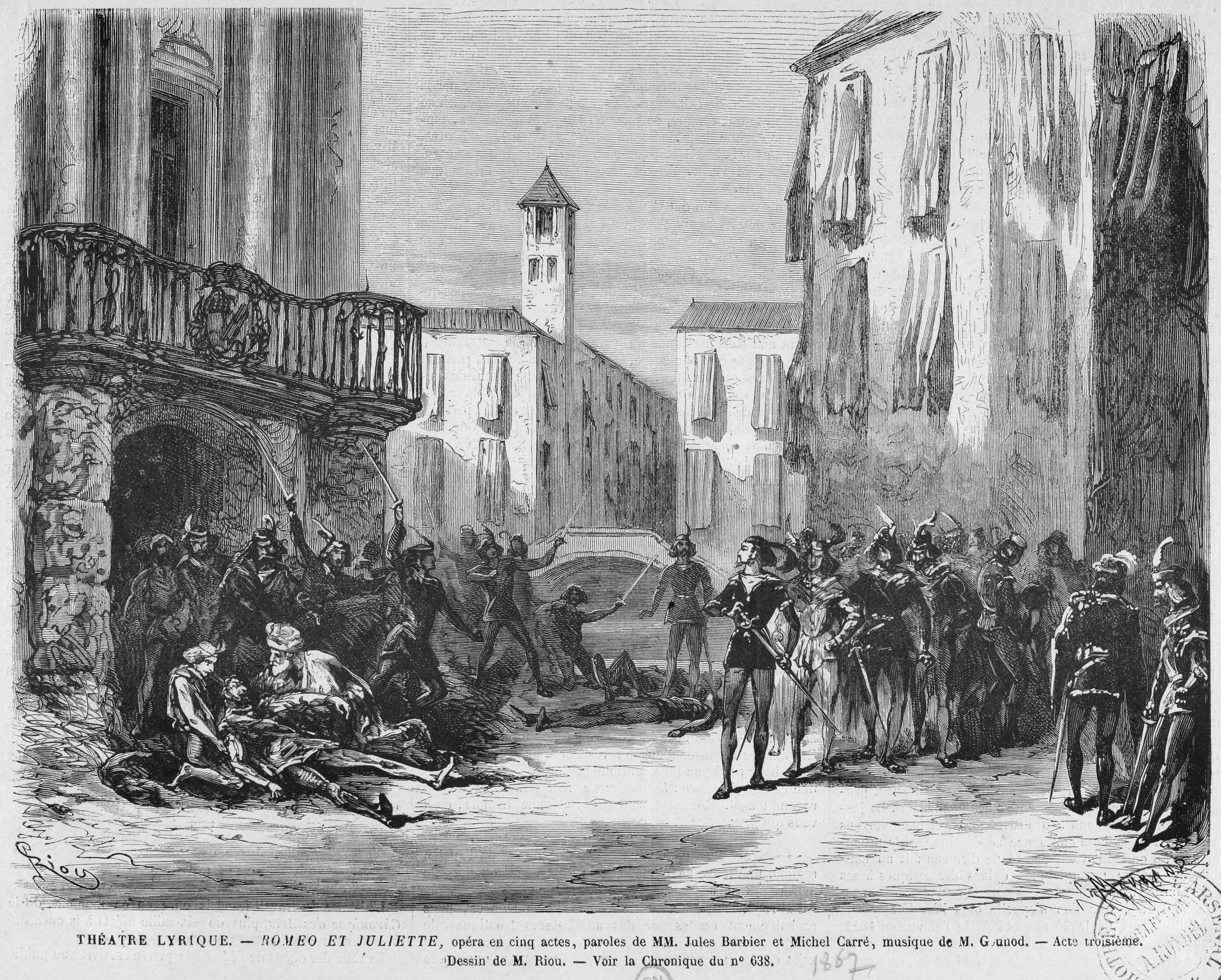 Press illustration of Act 3, scene 2, of the opera Roméo et Juliette as performed in the premiere at the Théâtre Lyrique in Paris on 24 April 1867